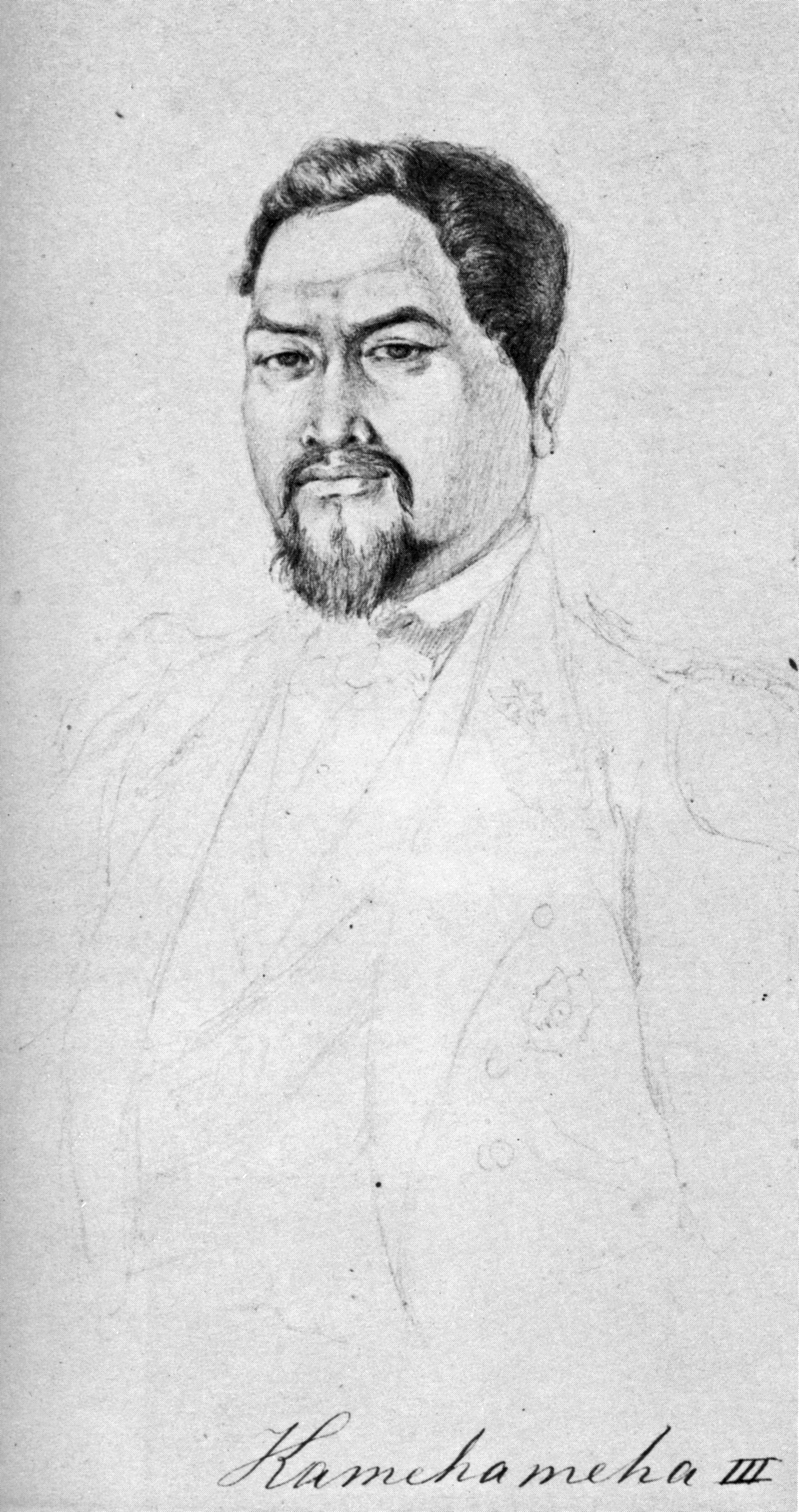 Portrait of King Kamehameha III by August Plum, the artist aboard the Galathea.